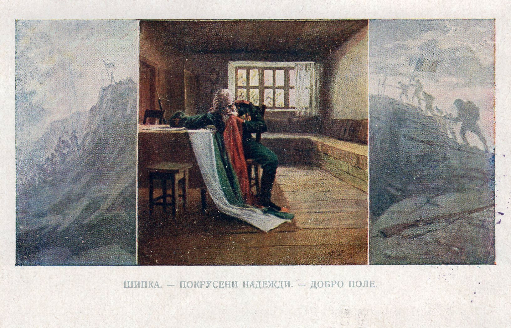 A postcard sent to Dimitar Vlahov from Sofia, 1922. This media file is produced by Wikipedian in Residence in Category:Wikipedian in Residence at DARM in 2017.